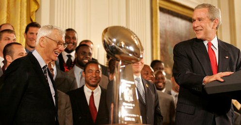 Dan Rooney, owner of the Pittsburgh Steelers of the National Football League, appears at the White House with President George W. Bush on the occasion of the commemoration of his side's winning Super Bowl XL.